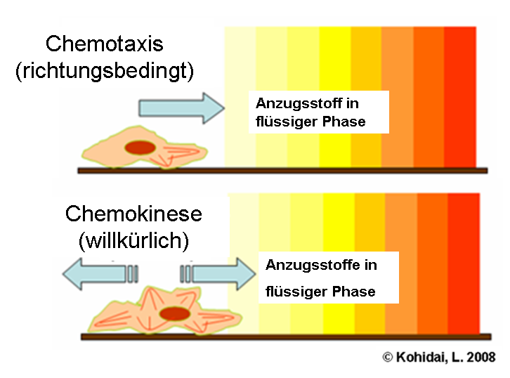 Chemotaxis - Chemokinese